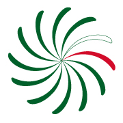 IAERE Logo